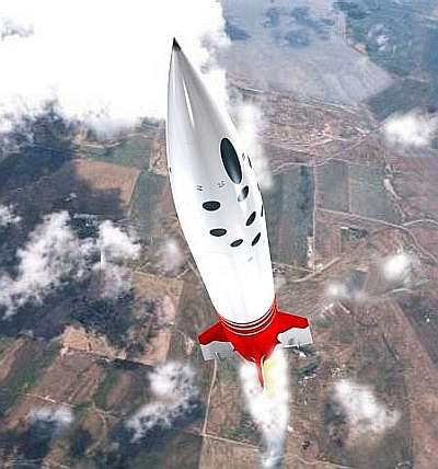 A rendering of a Canadian Arrow vehicle in flight, created for Canadian Arrow by co-founder Dan McKibbon